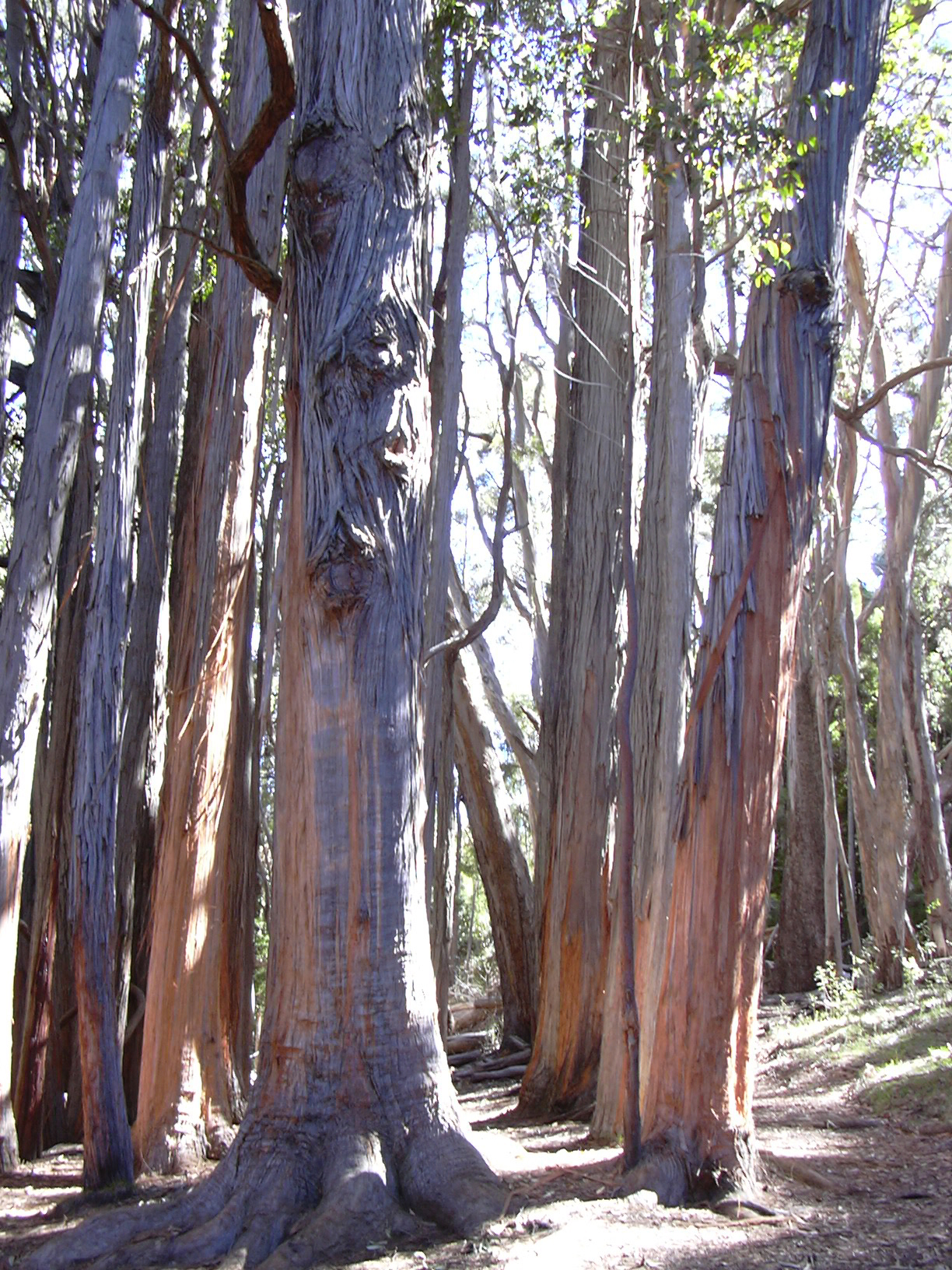 Eucalyptus obliqua (stringy bark). Location: Maui, Hosmers Grove